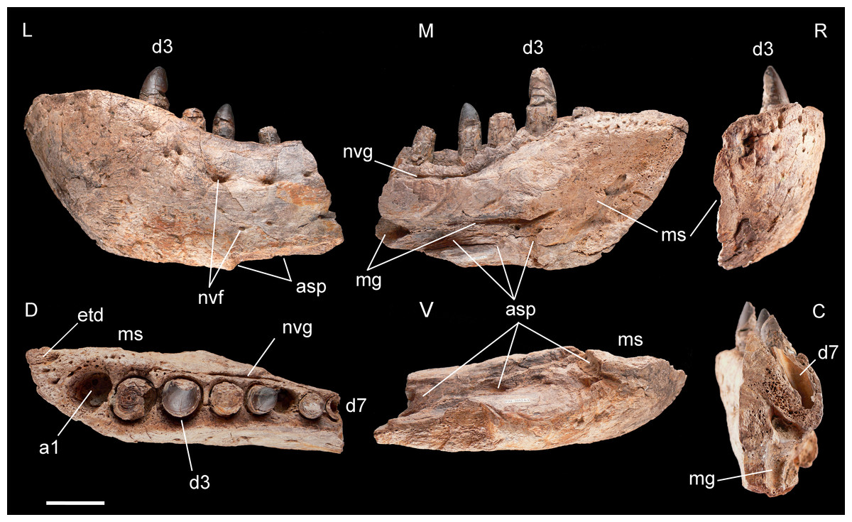 Specimen MHNT.PAL.2012.6.1 in lateral (L), medial (M) rostral (R), dorsal (D), ventral (V), and caudal (C) views. Scale bar = 5 cm. Abbreviations: see text.